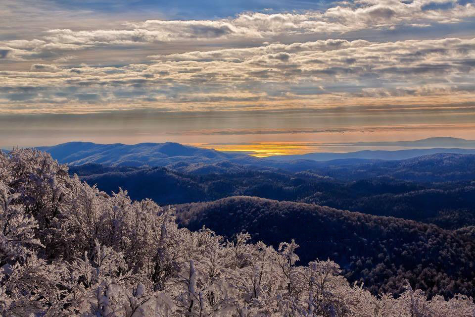 Bjelolasica Croatia